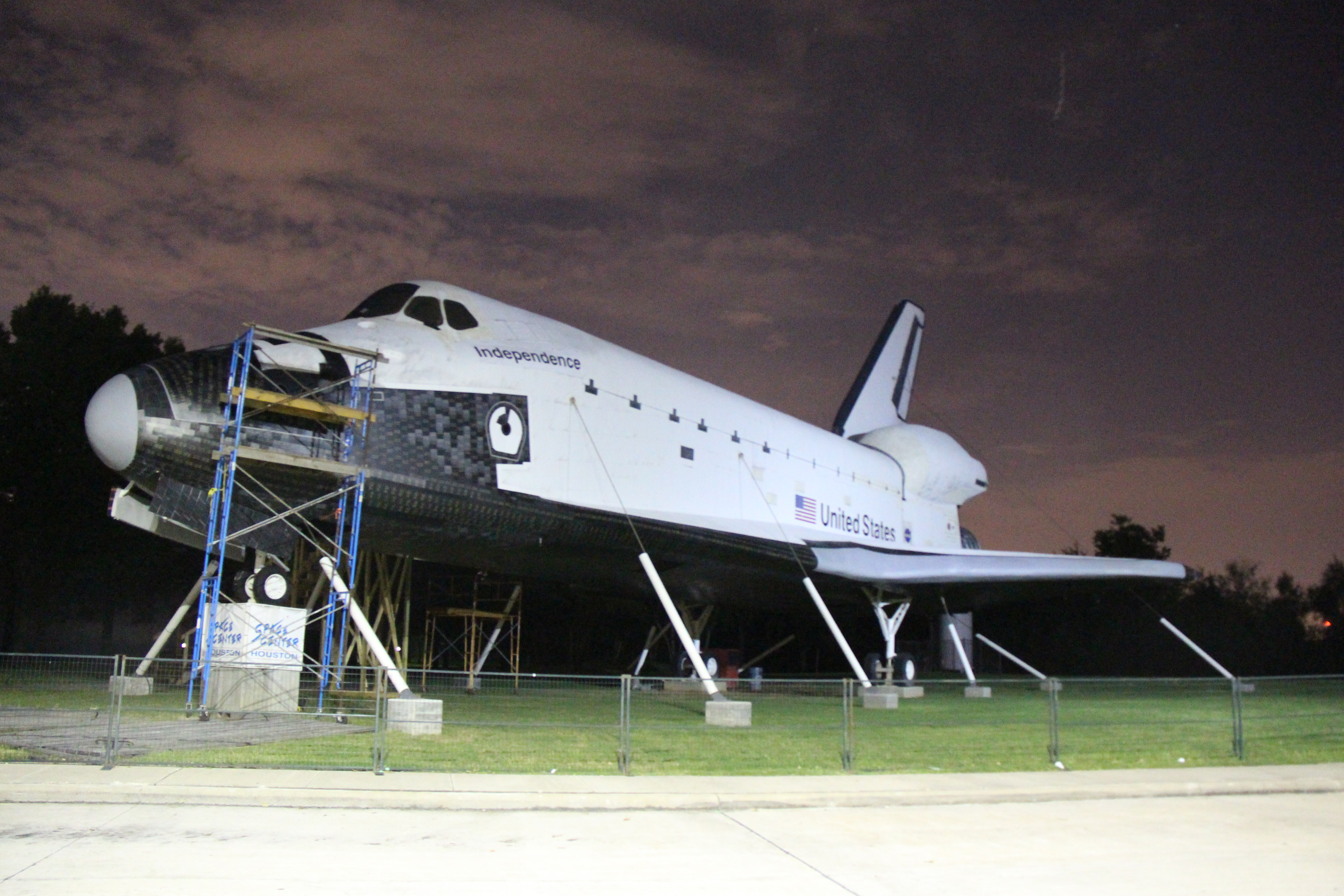 Space Shuttle Independence OV-100 on display at Space Center Houston.